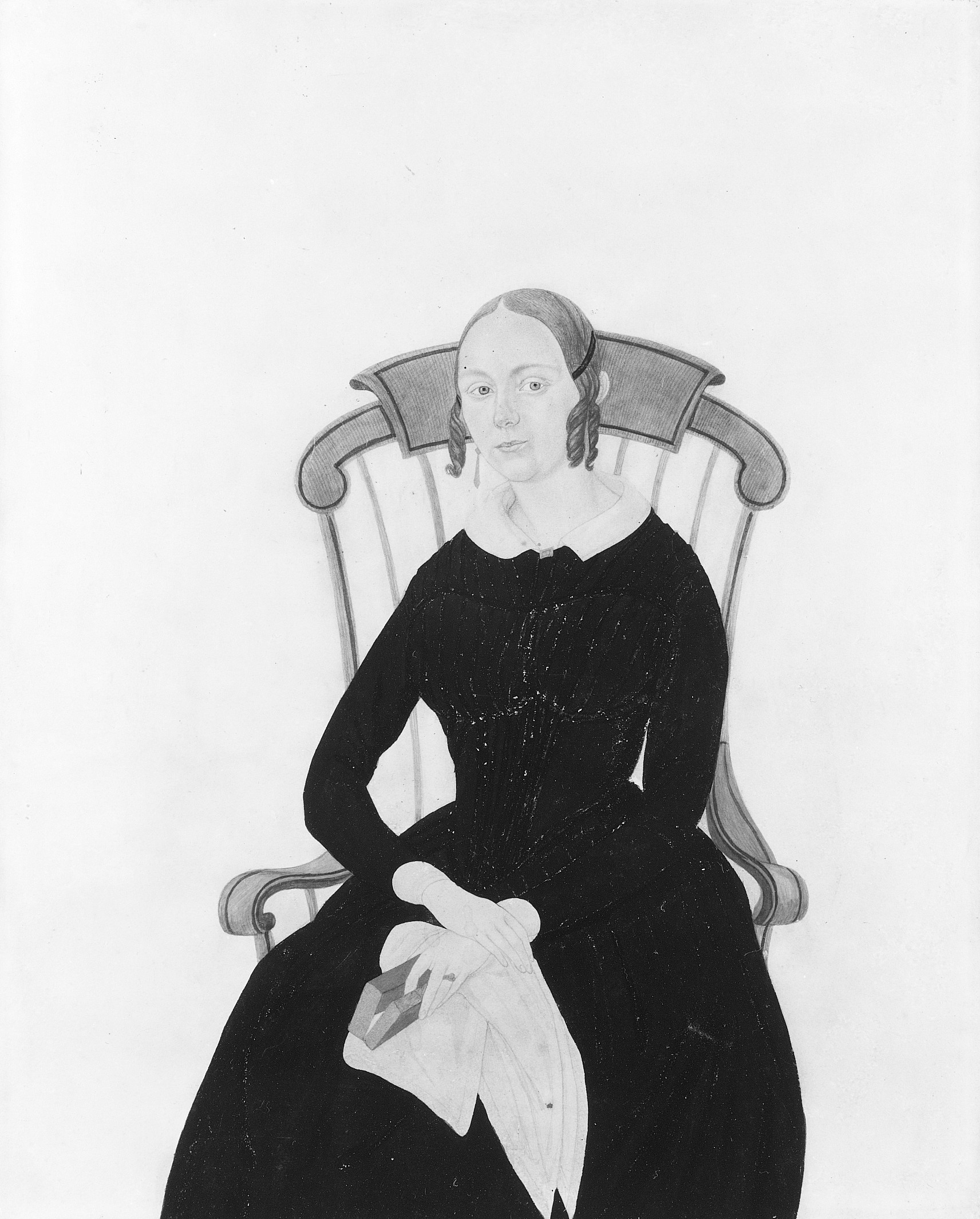 Watercolor; Drawings